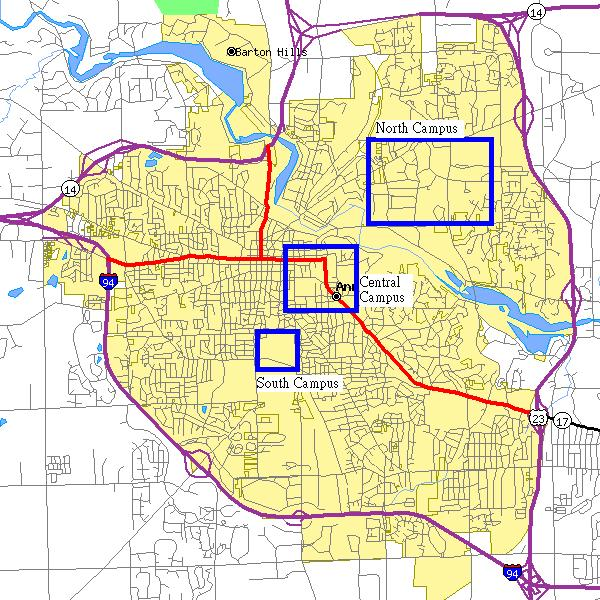 Approximate locations of University of Michigan's main campuses in Ann Arbor, using a map from